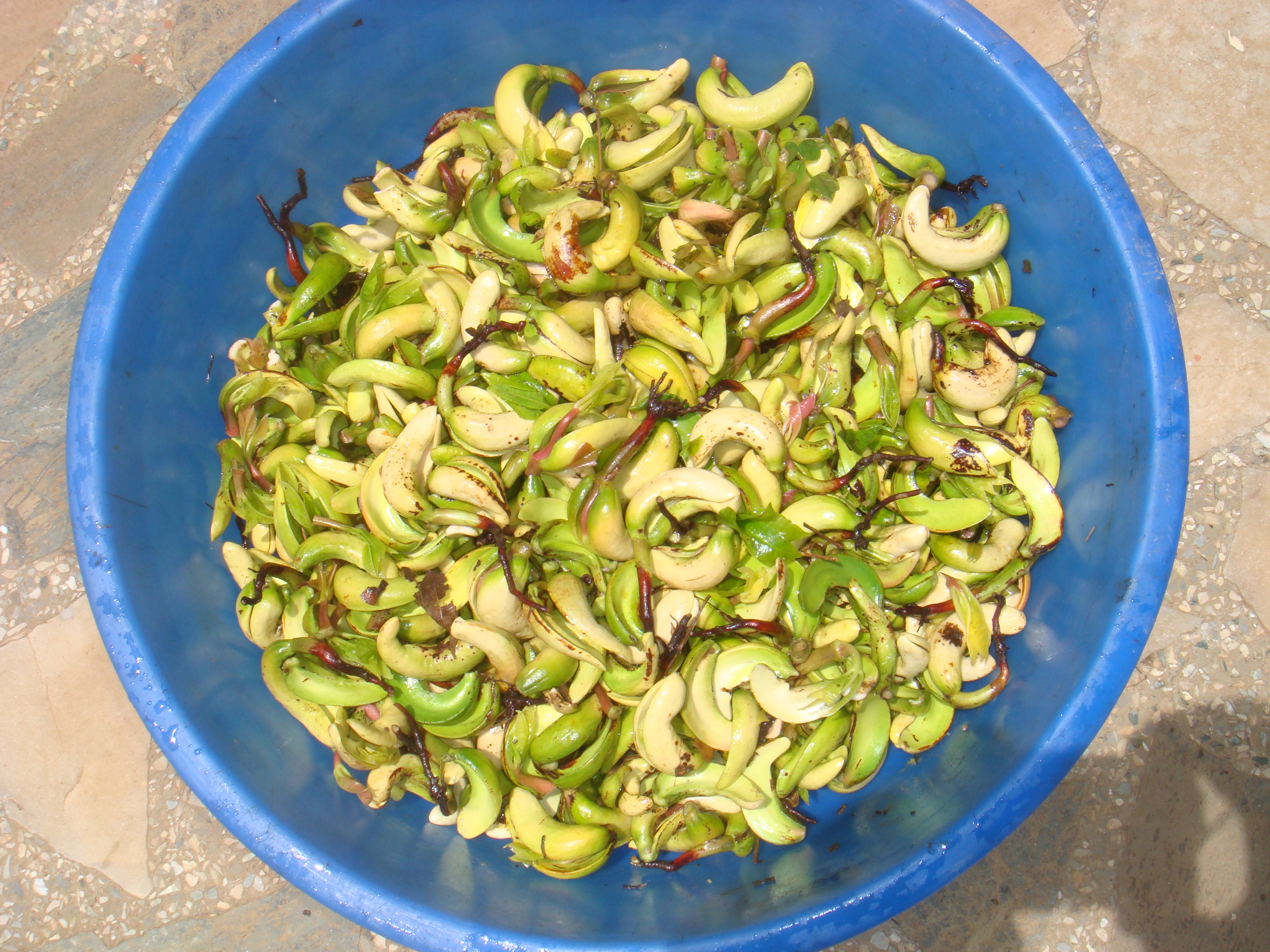 Cashew sprouts collected in a basket. This is eaten raw as well as cooked during monsoon season when its sale value drops. These sprouts are normally available during the season immediately after the rains. Those fallen nuts lying on ground and somehow missed to pick up by harvesters, would have germinated in the fertile soil by this time. Another lot comes from the late crops. Some of the ill-fated cashew fruits (along with nuts) are late to mature. If the rains have arrived before they are harvested, the seeds become useless for normal market consumption. In this case, they are better used at home either directly or after slight sprouting, in 'curries'. In curries they taste somewhat similar to mushroom.